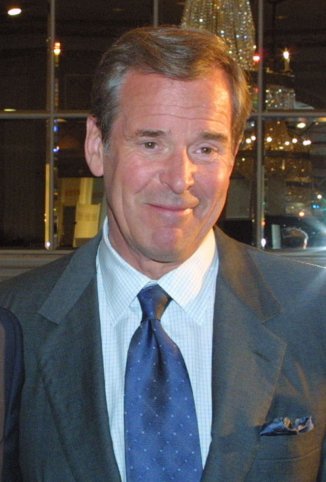 ABC News anchorman Peter Jennings at the 61st Annual Peabody Awards Luncheon, in 2002. PHOTO CREDIT: ANDERS KRUSBERG / PEABODY AWARDS